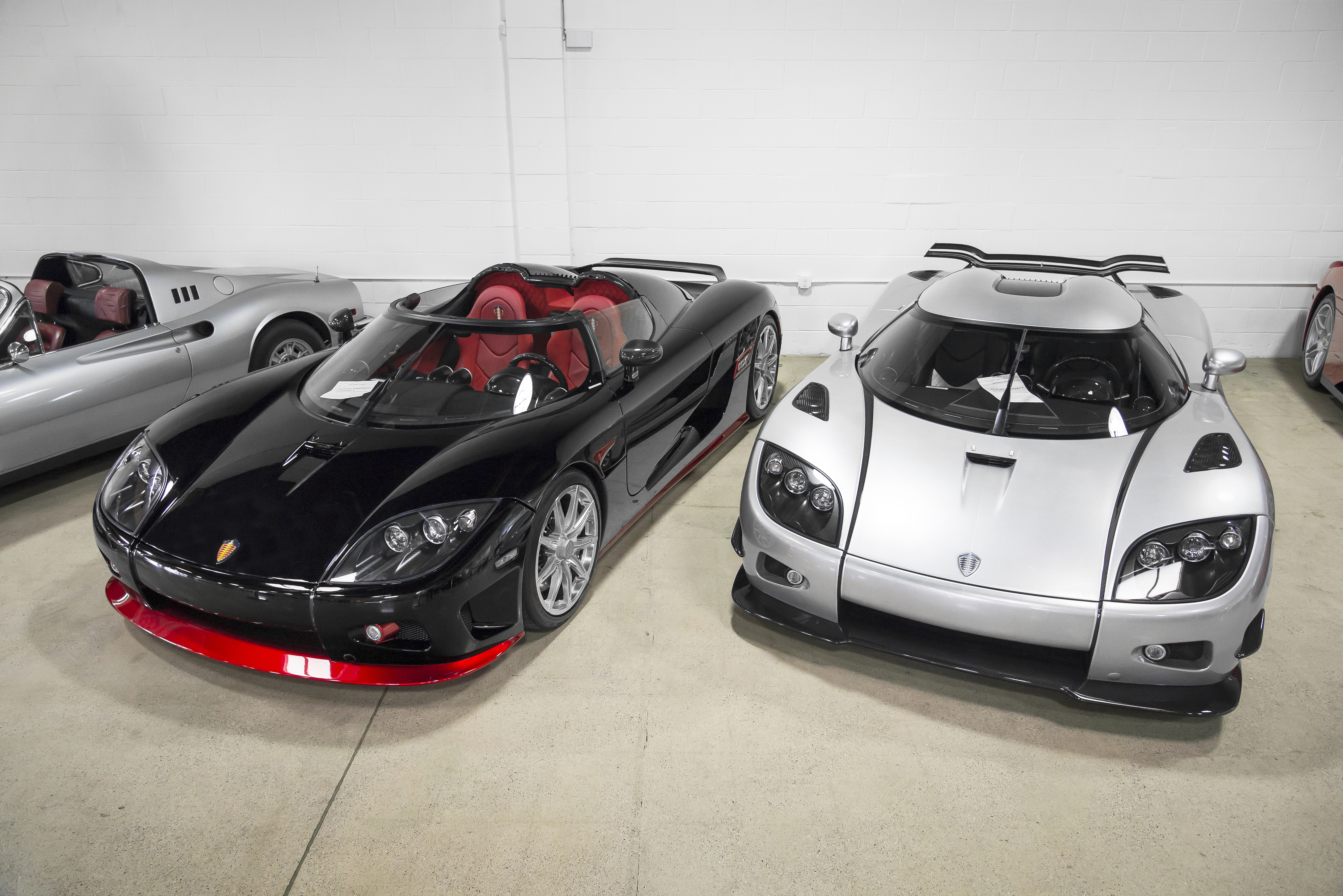 Koenigsegg CCXR SE and CCXR Trevita at Fushion Luxury Motors